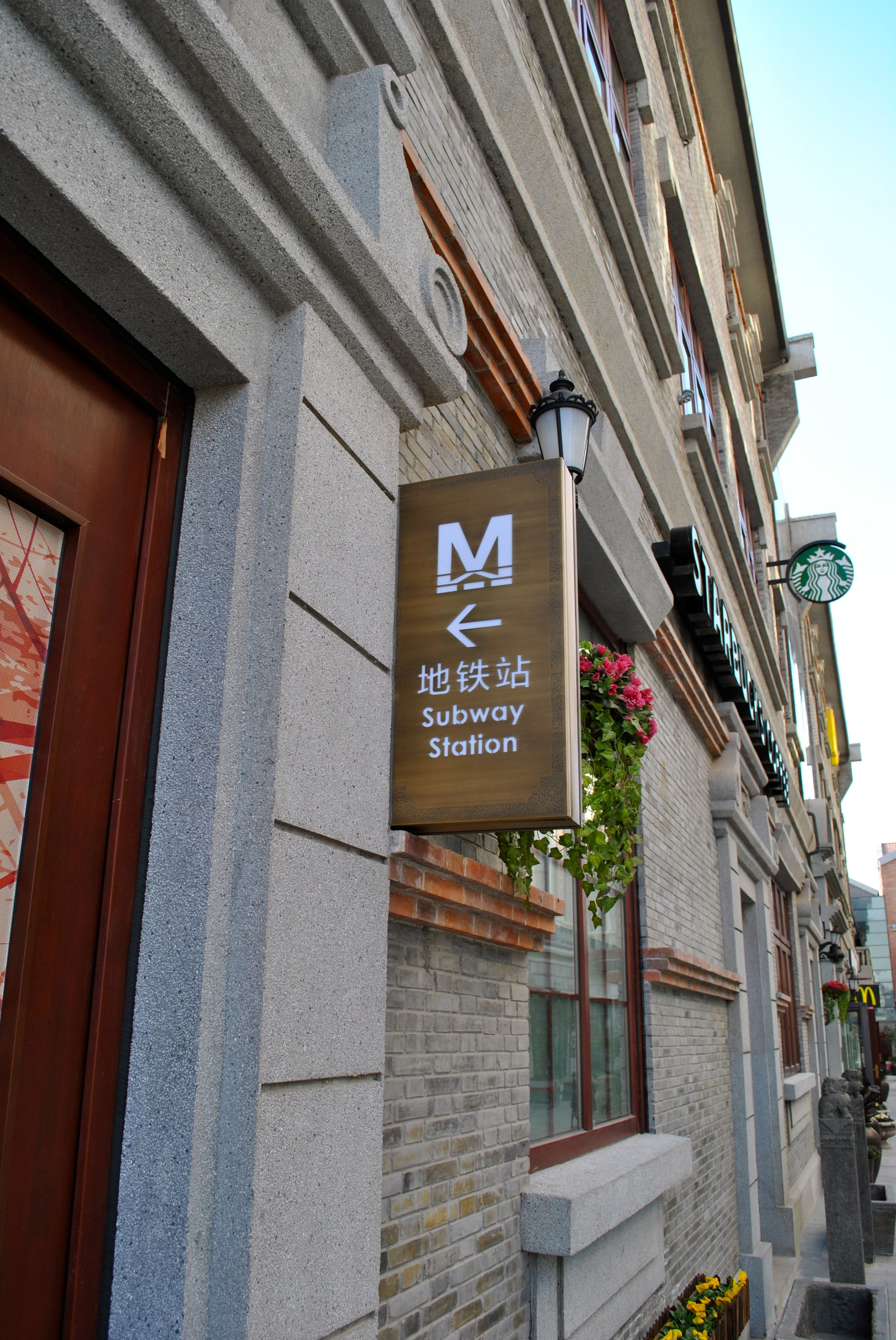 Future Line 8 subway station.